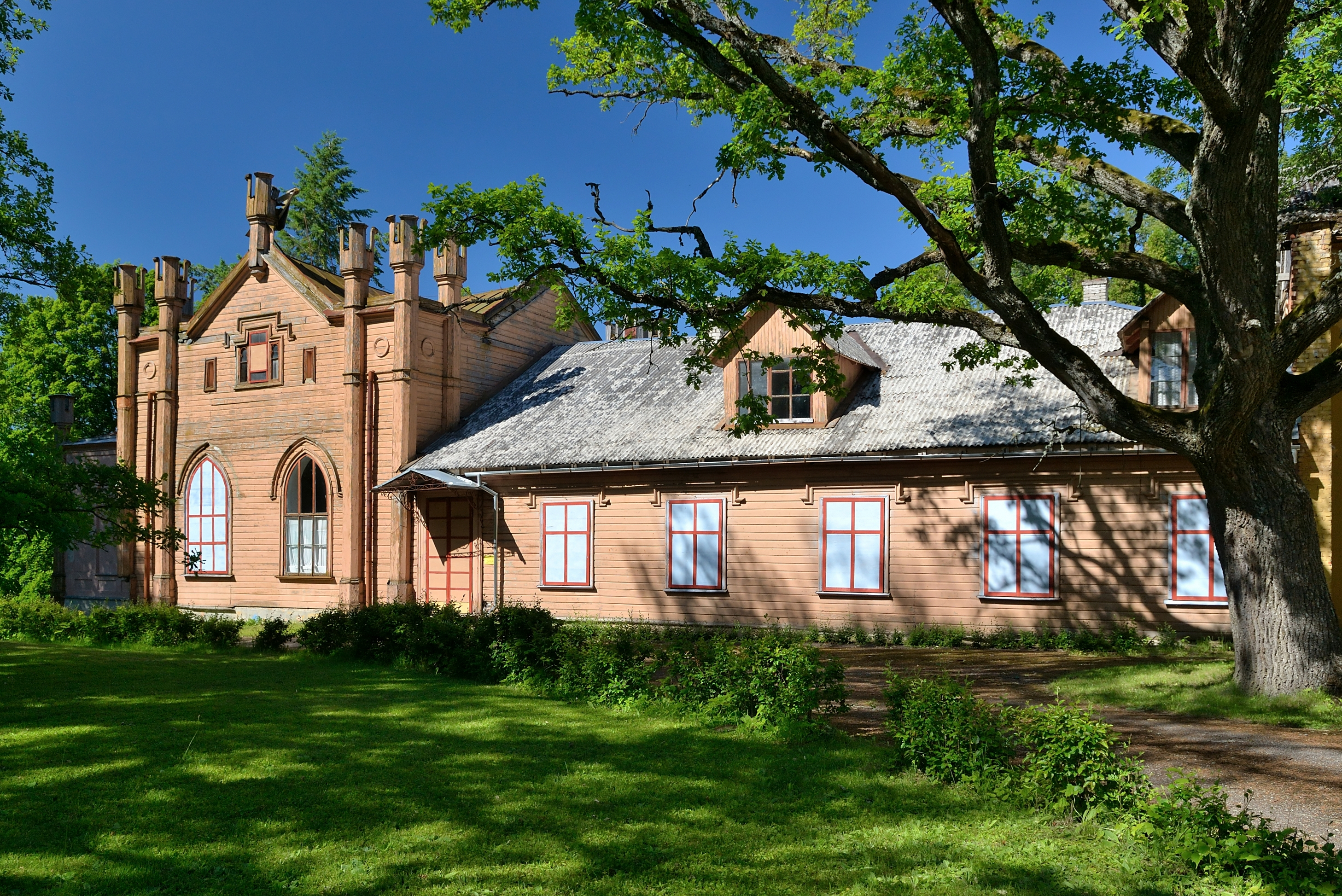 Kukulinna manor main building